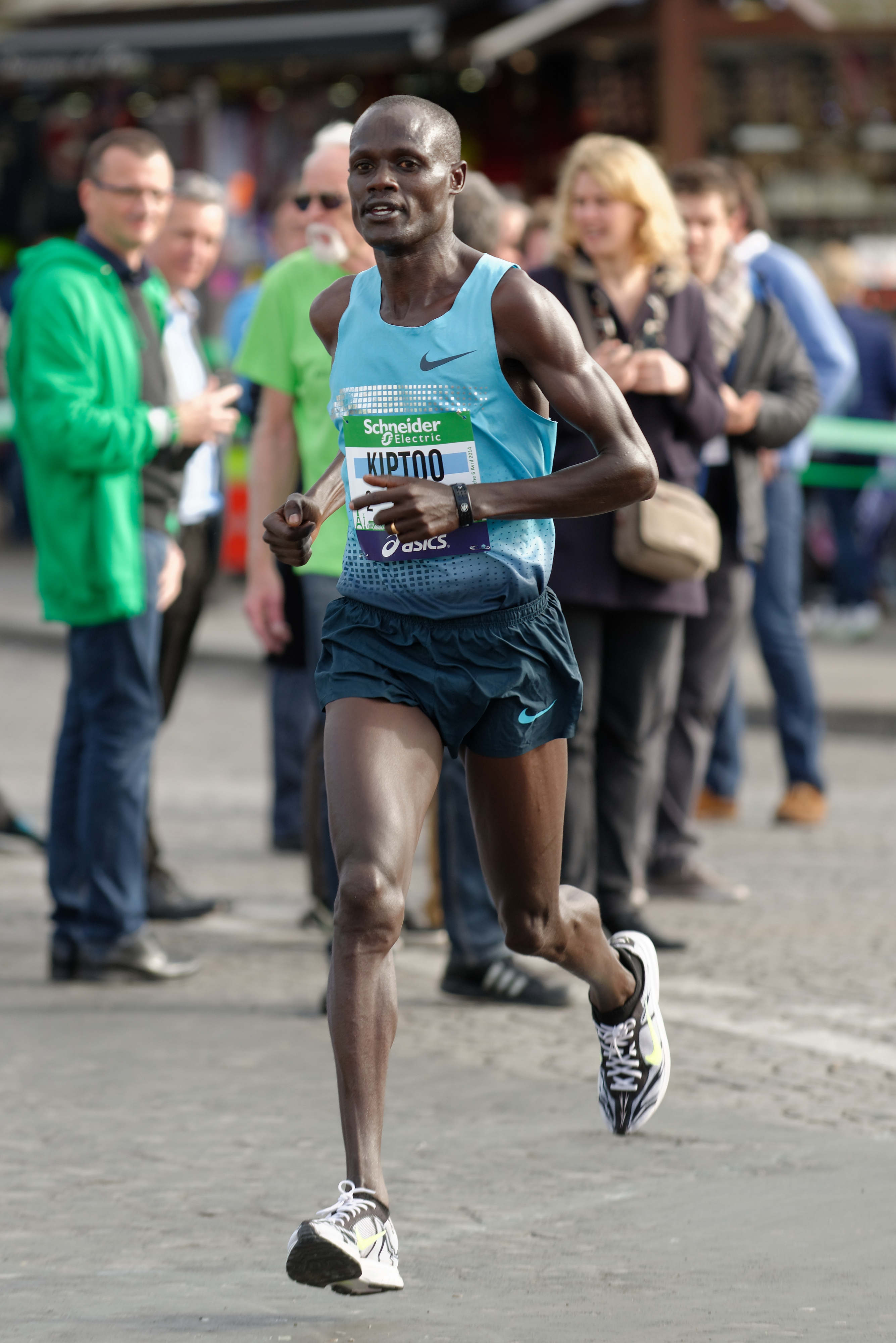 Kenya's Mark Kiptoo at the Trocadéro refreshment tables in the 2014 Paris Marathon.